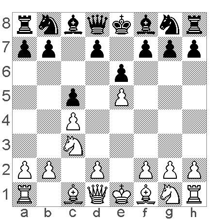 chess diagram Flohr gambit Source: CBlight + my processing